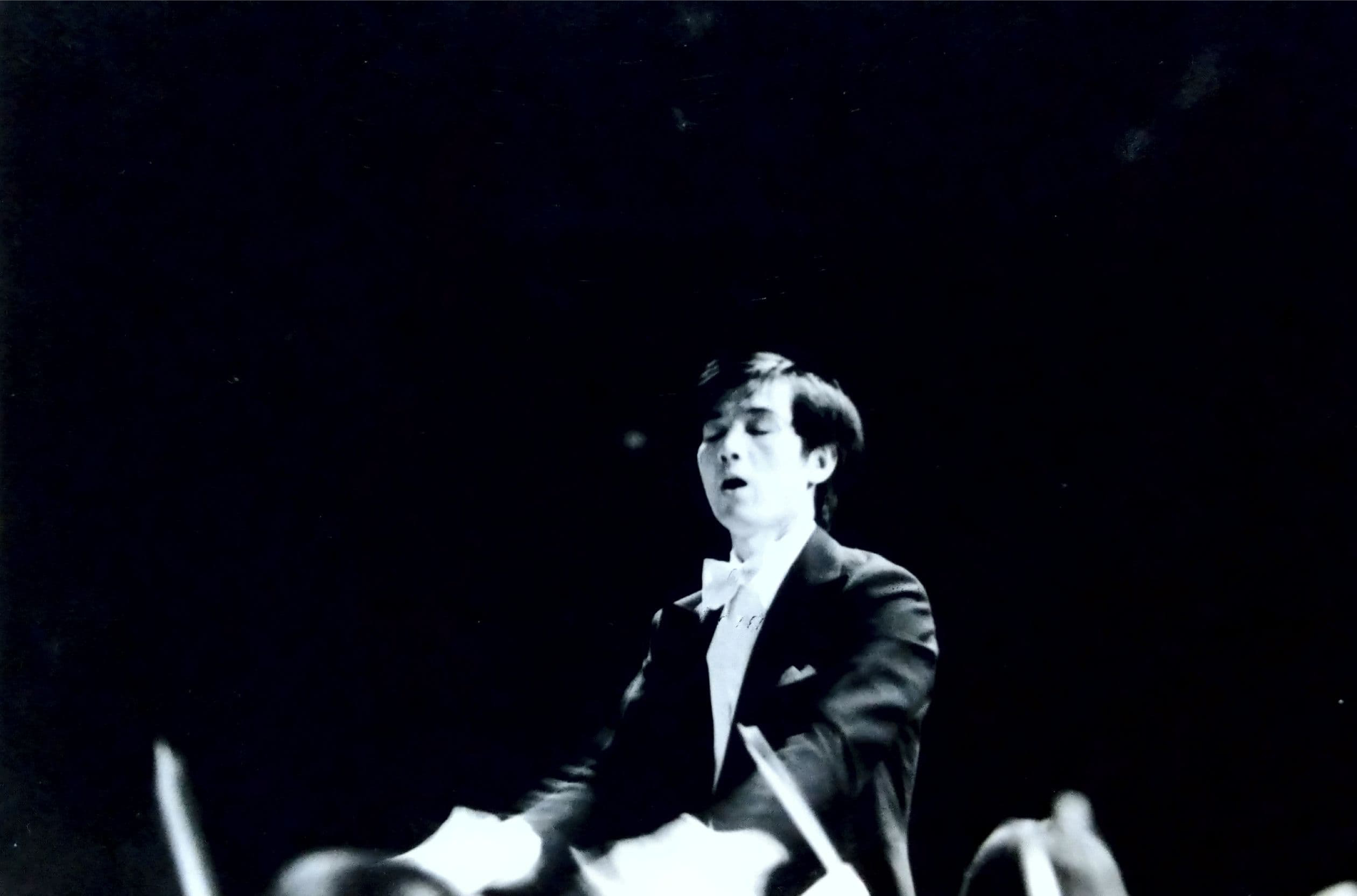 Liao Nien-Fu conducting onstage